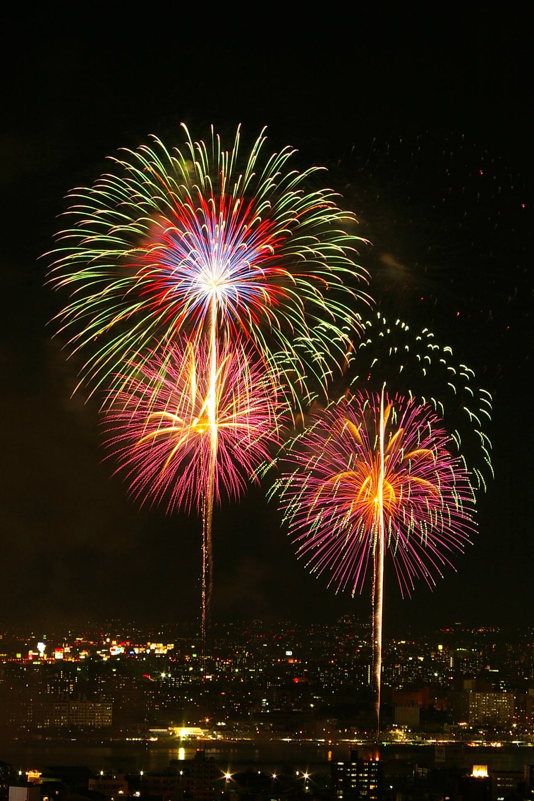 Fireworks at Osaka City (Yodogawa Fireworks), Osaka City, Japan